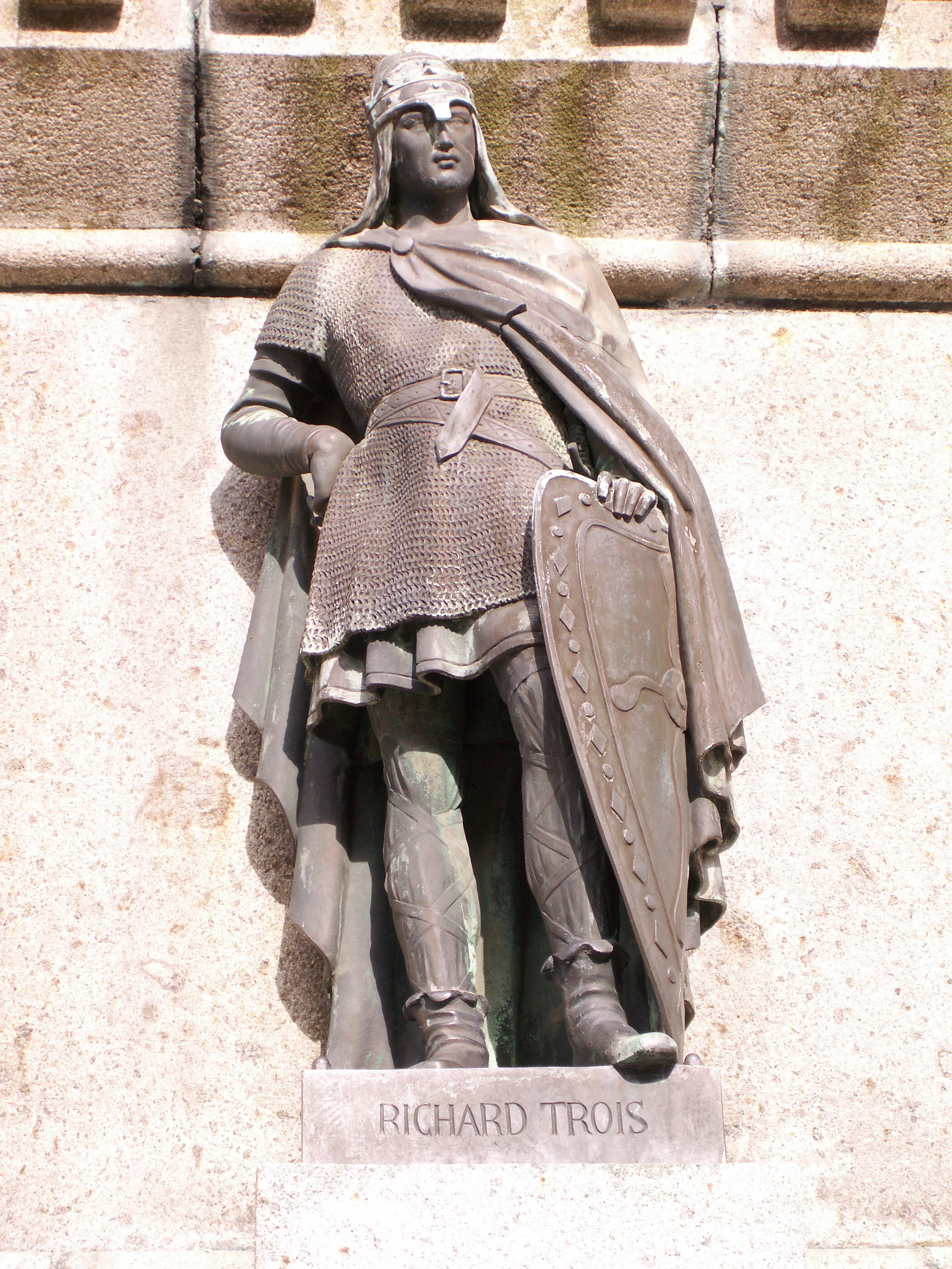 Photo of Richard III as part of the Six Dukes of Normandy statue in the Falaise town square.